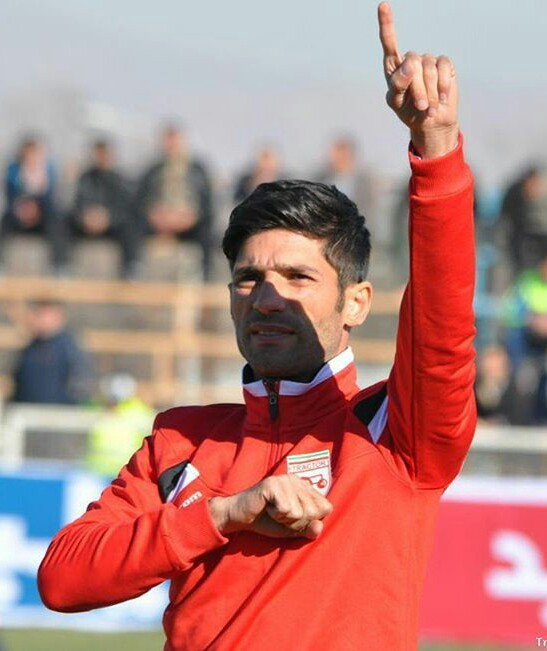 shahramgudarzi